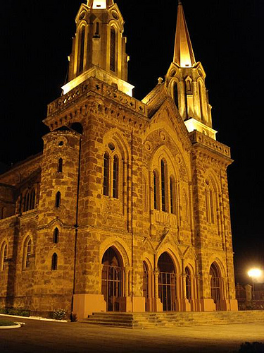 Church of St. Dominic